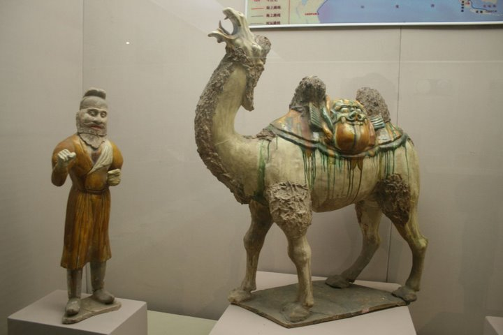 Chinese sancai-glazed pottery camel and Sogdian groom from the Tang Dynasty (618-907 AD) of medieval China.